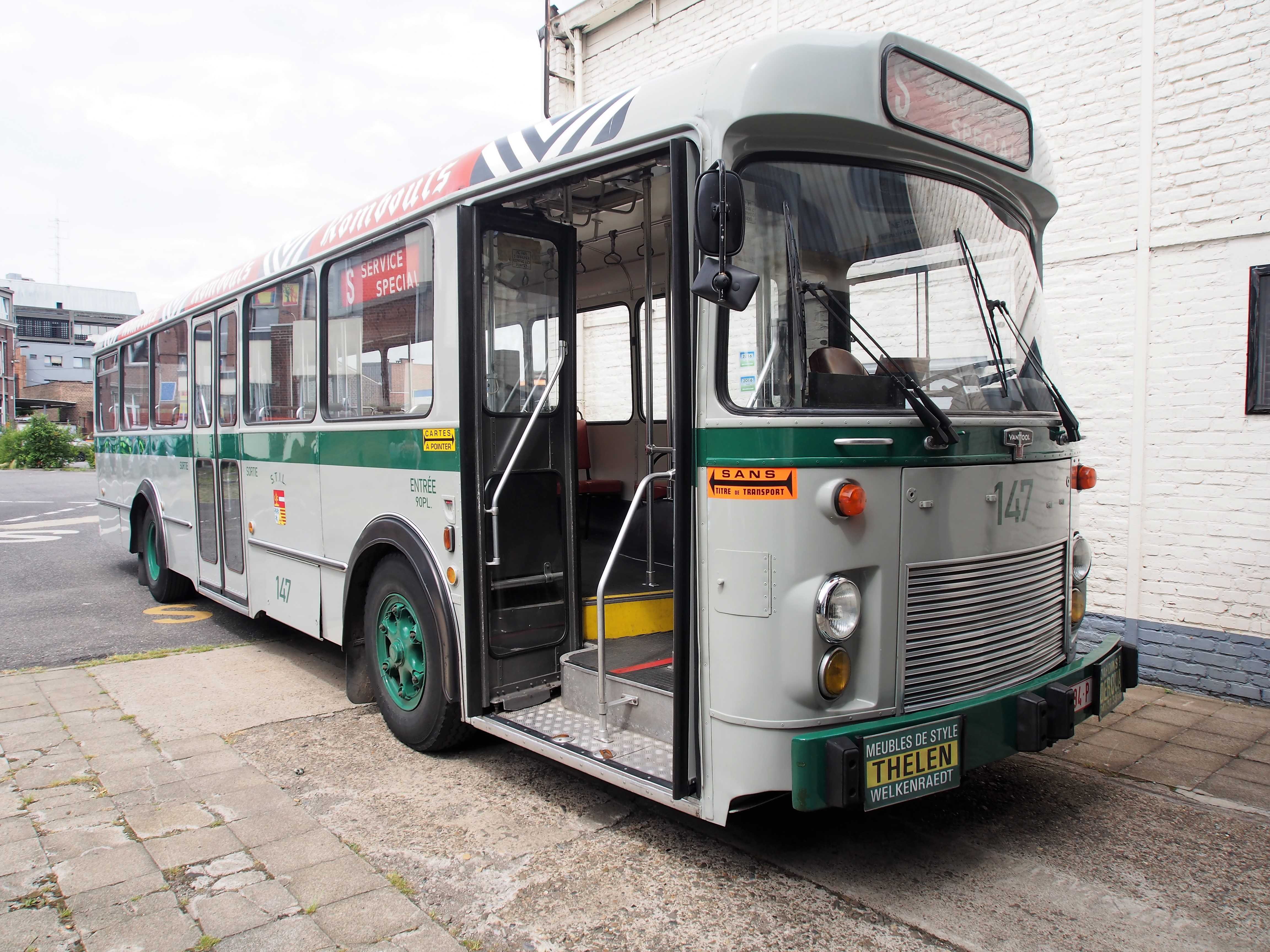 1972 Van Hool-Fiat 409AU9. Length 11.575 m, width 2.49 m, wheelbase 5.50 m. The engine is a Fiat 8200.12.000 with 178cv at 2500 rpm. It seats 33, with 57 standing passengers. 20 were bought in 1972, decommissioned in 1984. Low front floor was a particularity, as was the new hydraulic Voith 506 transmission. Photographed in Musée des transports en commun (Liège).